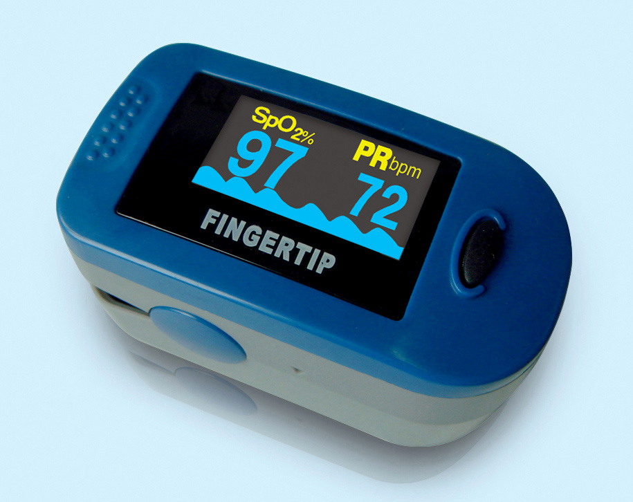 A fingertip pulse oximeter with plethysmogram.